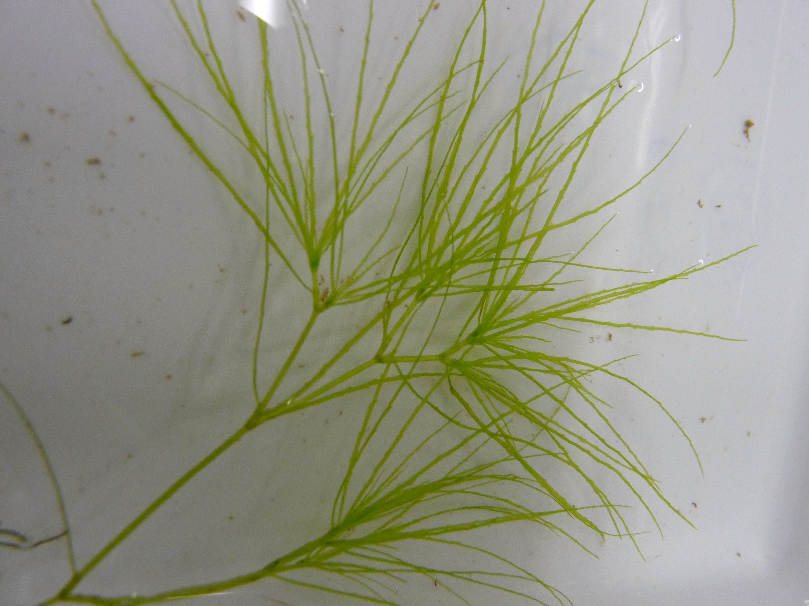 Najas oguraensis